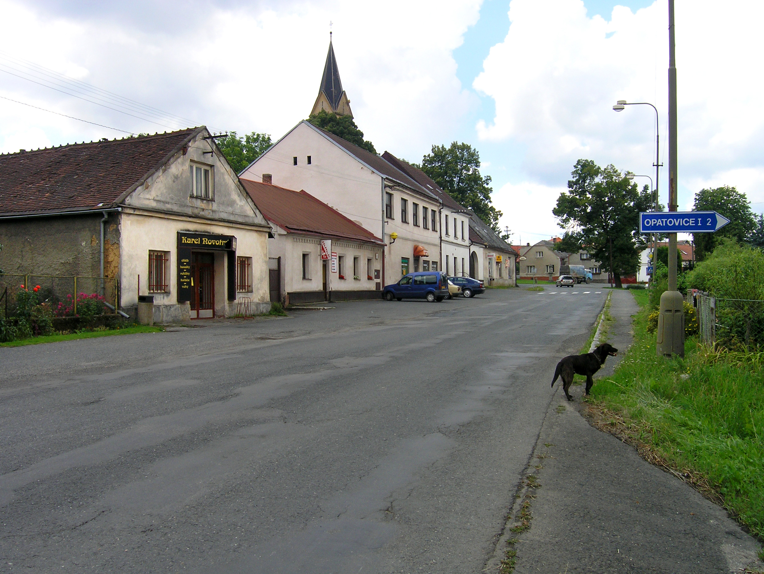 Road No 339 in Červené Janovice, Czech Republic